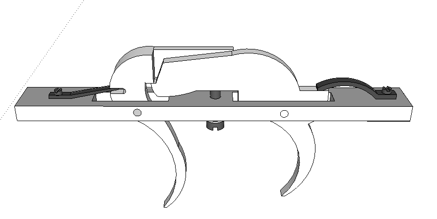 function scheme "Double set trigger"